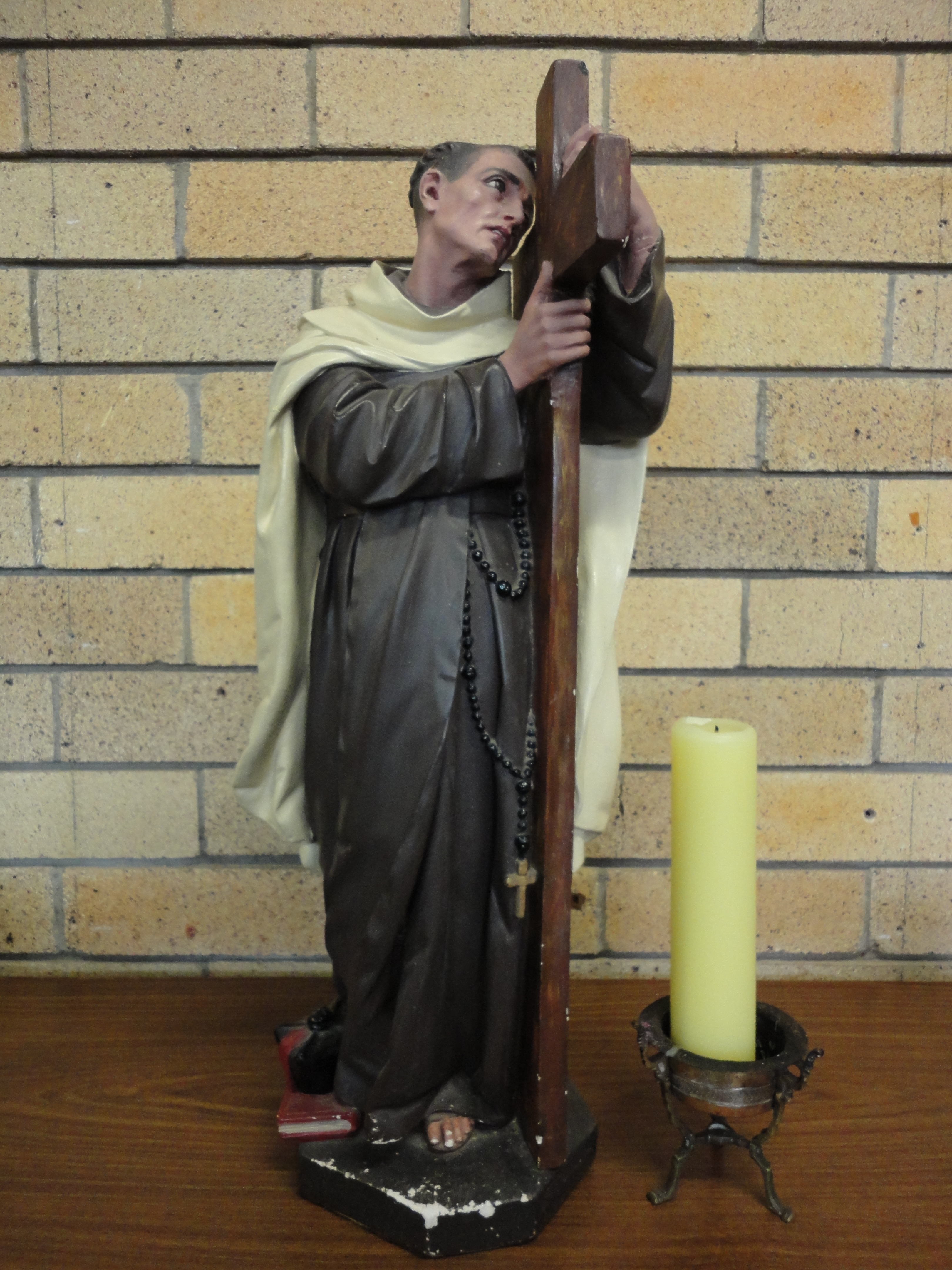 Statue of St. John of the Cross at Carmelite Monastery, Varroville, NSW, Australia